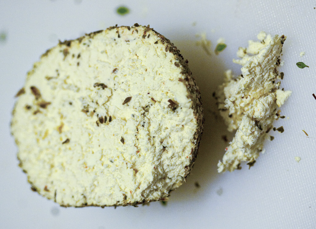 Shanklish, Lebanese aged yoghurt cheese.